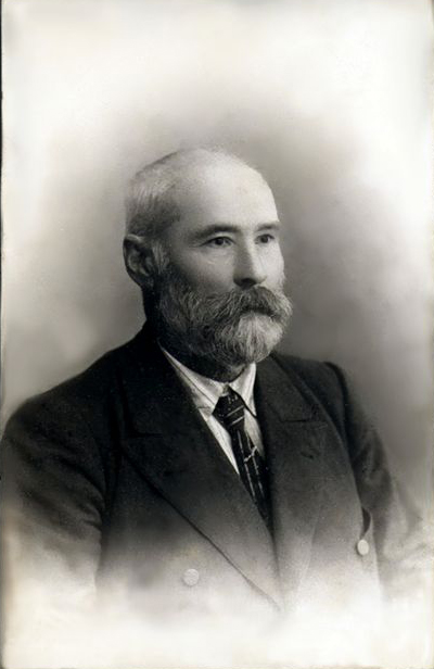 Mikhail Ivanovich Jankowski (24 September 1842 — 10 October 1912) — Polish industrialist, naturalist, researcher of the Russian Far East.